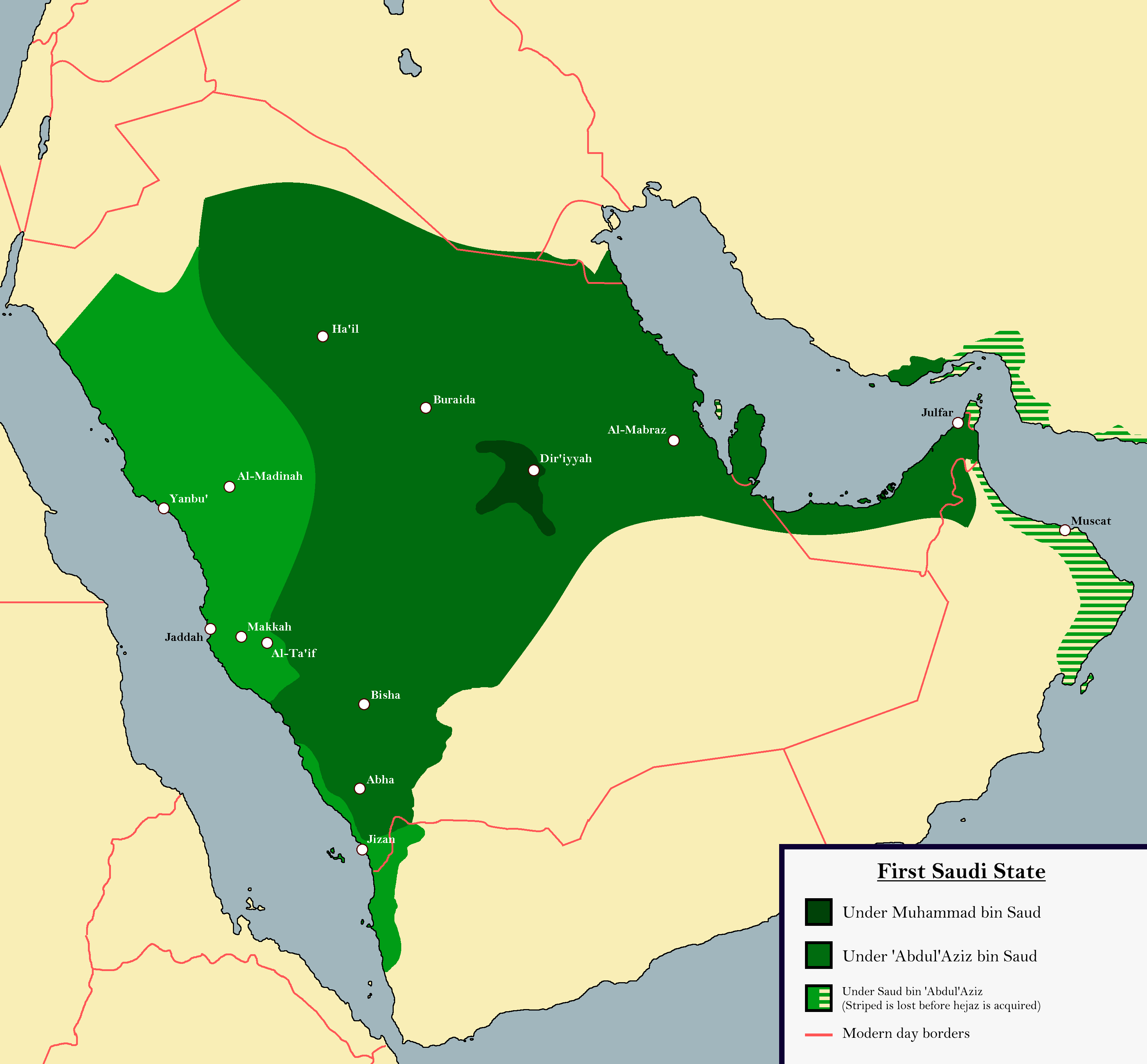 Map of the First Saudi State, Emirate of Diriyah. 1744 – 1786 1786 – 1808 1808 – 1816